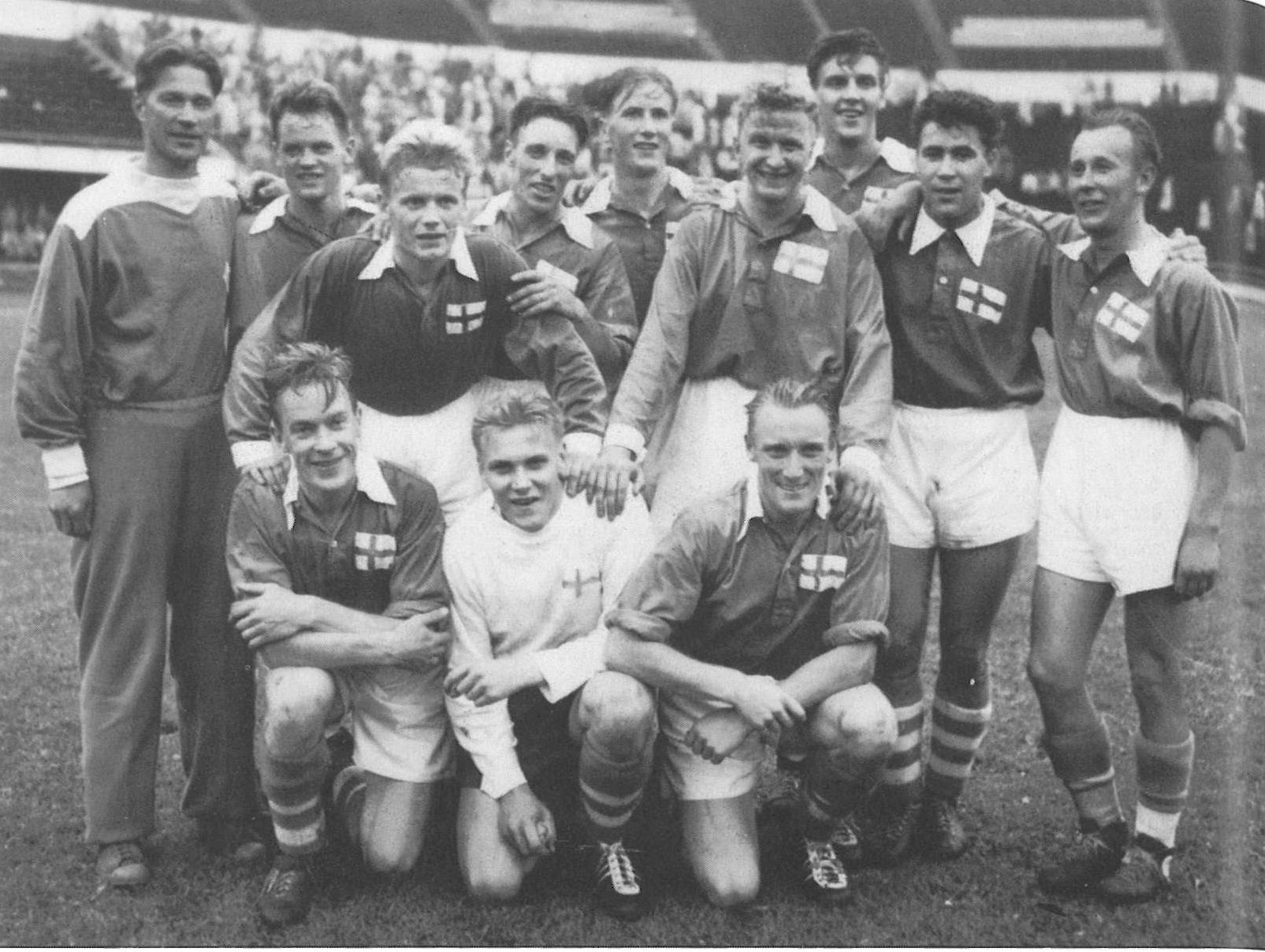 Photograpf of the Finnish national football team of 1953. From left to right: Aatos Lehtonen, Rainer Forss, Aimo Pulkkinen, Stig-Göran Myntti, Nils Rikberg, Seppo Pelkonen, Lauri Lehtinen, Olavi Lahtinen and Kalevi Lehtovirta (back row); Kurt Martin, Aarre Klinga and Åke Lindman (front row).